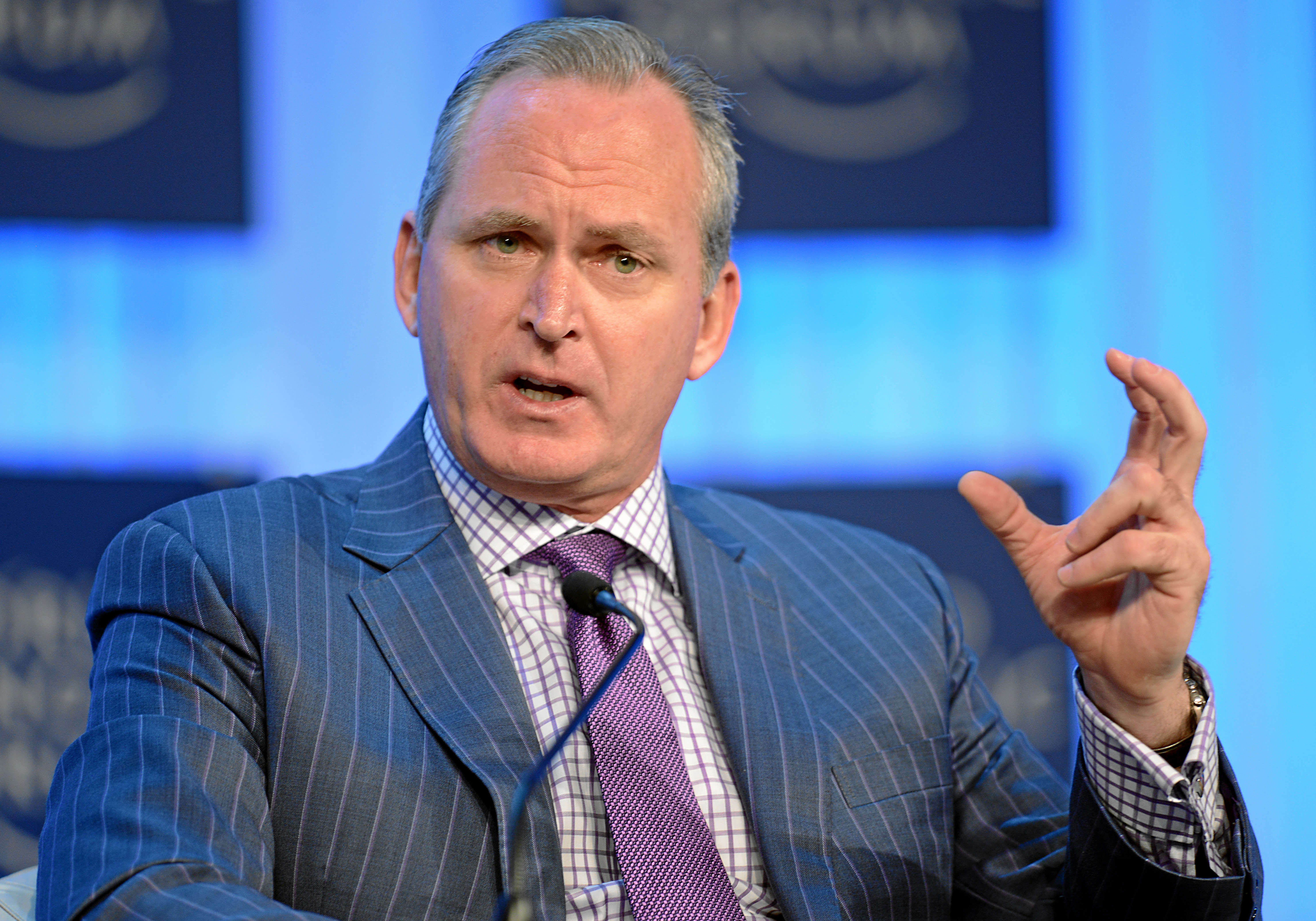 DAVOS/SWITZERLAND, 25JAN13 - Kevin Kelly, Chief Executive Officer, Heidrick & Struggles, USA gestures during the session 'Women in Economic Decision-making' at the Annual Meeting 2013 of the World Economic Forum in Davos, Switzerland, January 25, 2013. . . Copyright by World Economic Forum. . Michael Wuertenberg